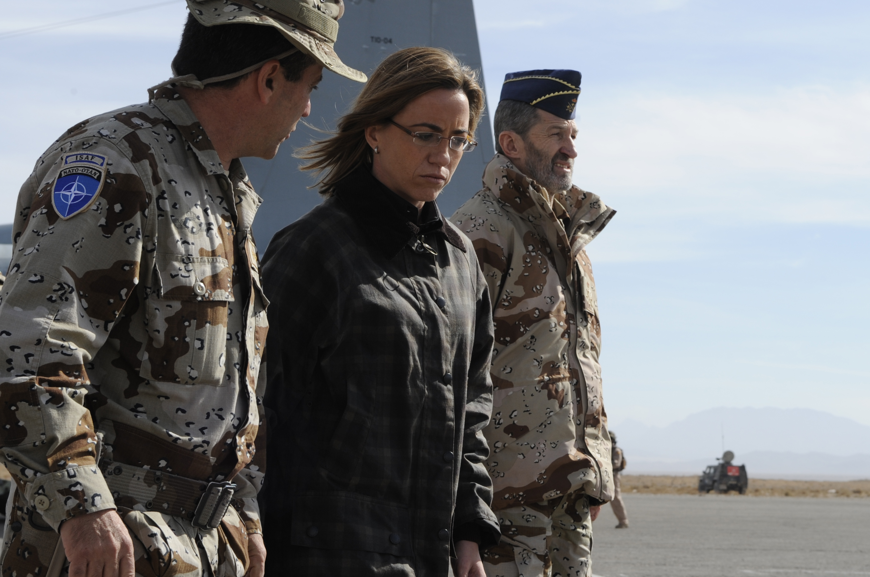 HERAT, Afghanistan--Spanish Colonel Rafael Sánchez Ortega, Spanish General of the Army José Julio Rodríguez Fernández and Spanish Minister of Defense Carme Chacón Piqueras. Rodríguez and Chacón arrives at Camp Arena in western Afghanistan, Nov. 10, 2008. Chacón came to Camp Arena in order to bring home the remains of two Spanish Army soldiers killed in action during a vehicle borne improvised explosive device attack near Shindand in western Afghanistan and to visit the other soldiers injured during the attack. The soldiers were performing an ISAF mission at the time of their death, Nov. 10, 2008 (ISAF Photo by U.S. Air Force Tech. Sgt. Laura K. Smith)(released)